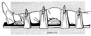 Diagram showing how to apply a splint to the kneecap.